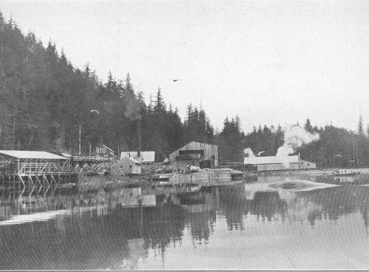 Shore whaling station in southeast Alaska Subject: Whaling--Alaska Tag: Aquatic Mammals